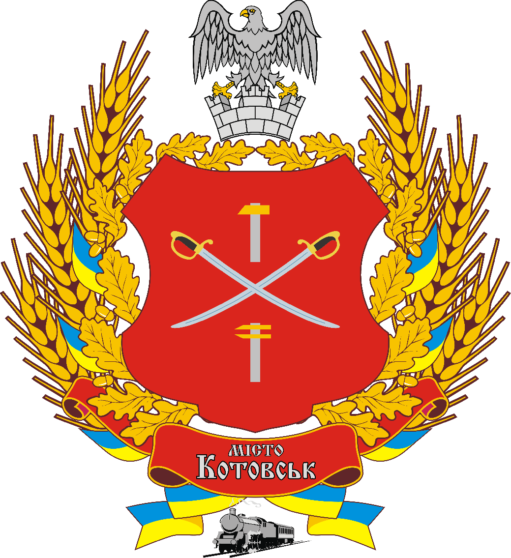 The coat of arms of the City of Kotovsk in 2006-2016, Odessa Oblast, Ukraine